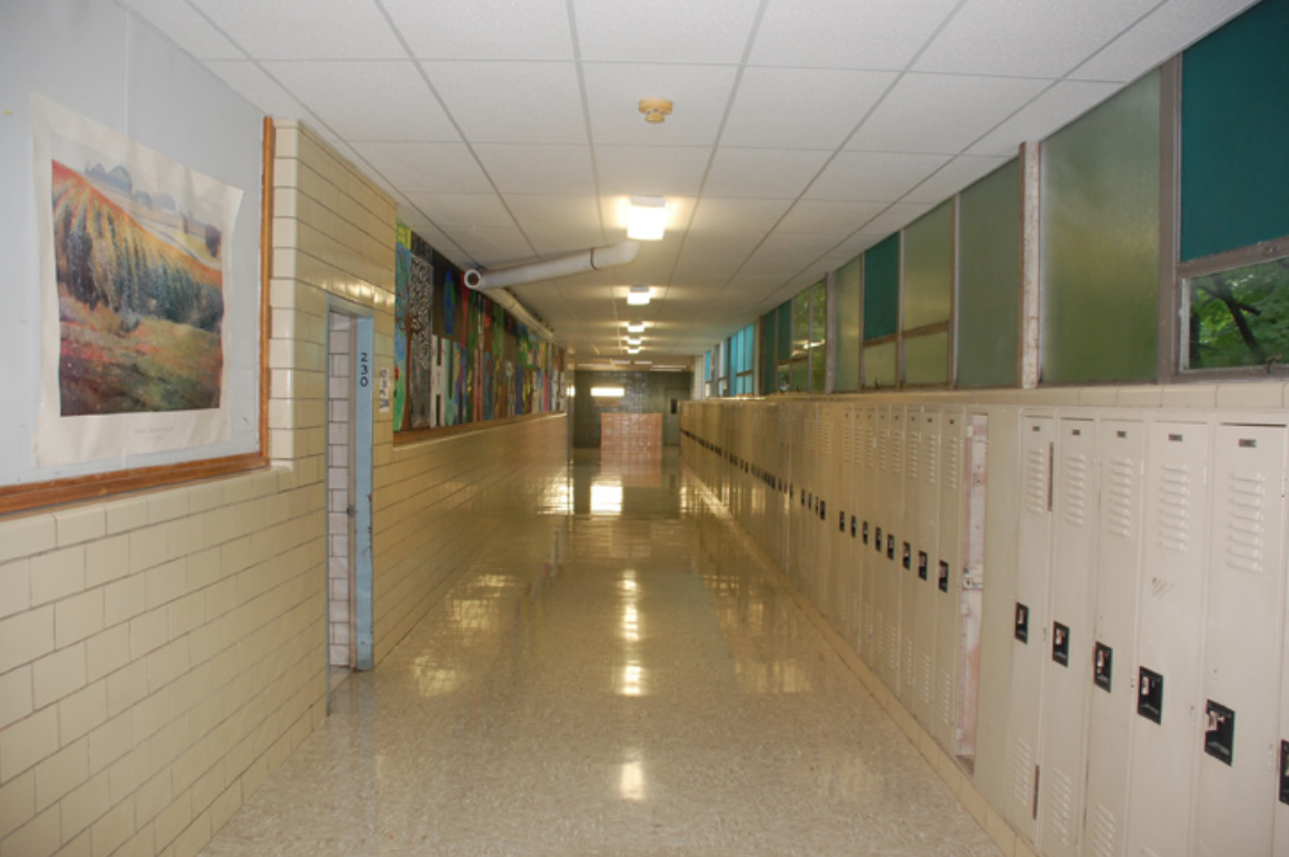 corridor